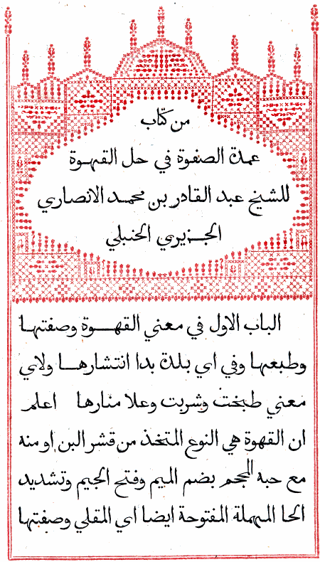 Umdat al-Qahwa - from Chrestomathie arabe: ou extraits de divers écrivains arabes, tant en prose qu'en vers, à l'usage des élèves de l'école spéciale des langues orientales vivantes. Contenant le texte arabe, Volume 1 by Antoine Isaac Silvestre de Sacy